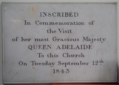 Hagley, St John the Baptist - interior, tablet commemorating a visit by Queen Adelaide in 1843 (southern side aisle)